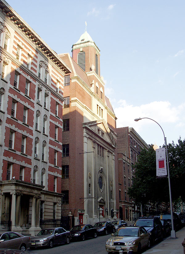 Exterior photo of Corpus Christi Catholic Church, New York City